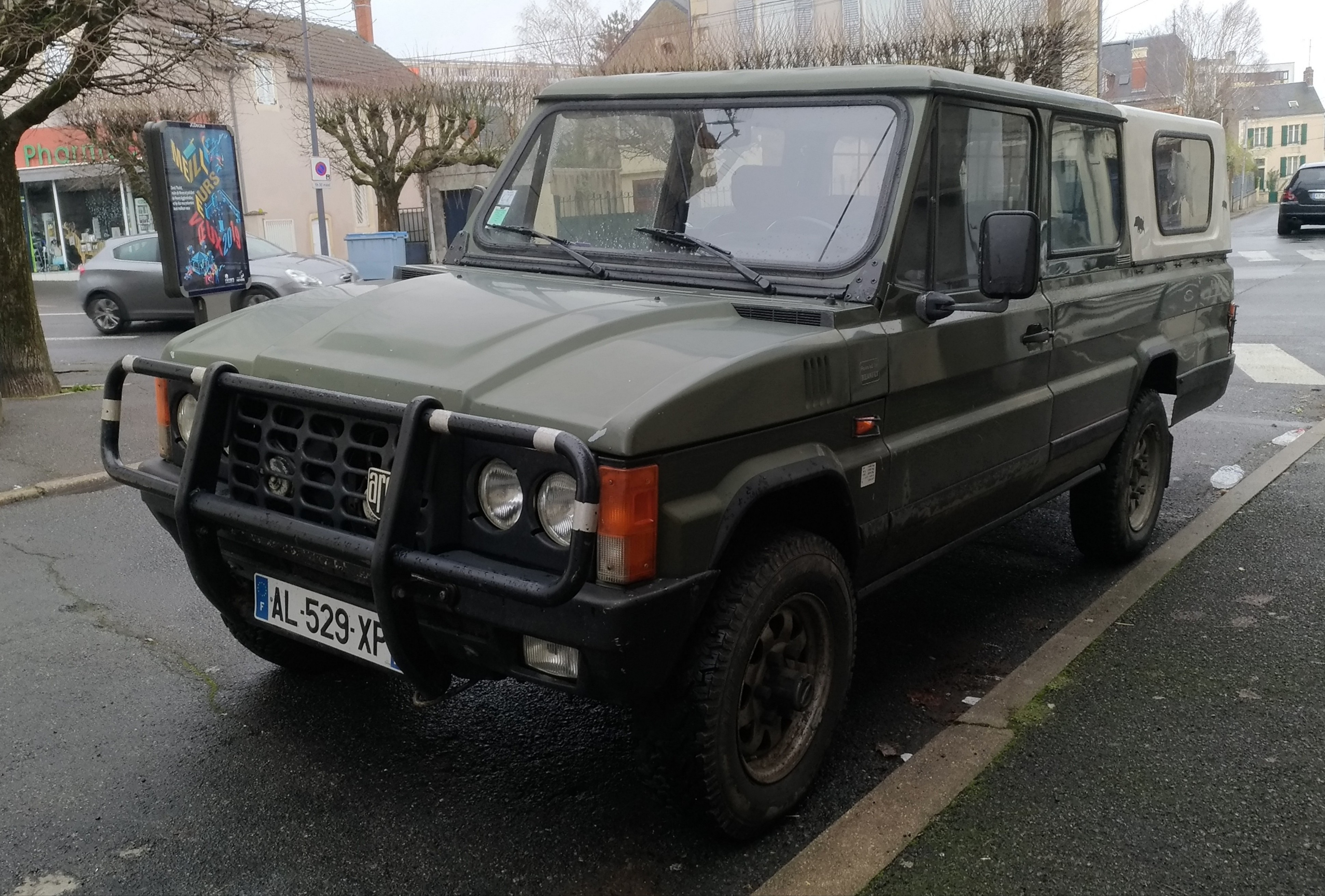 1998 Aro 10 (1.9 D 65 hp) at Nevers